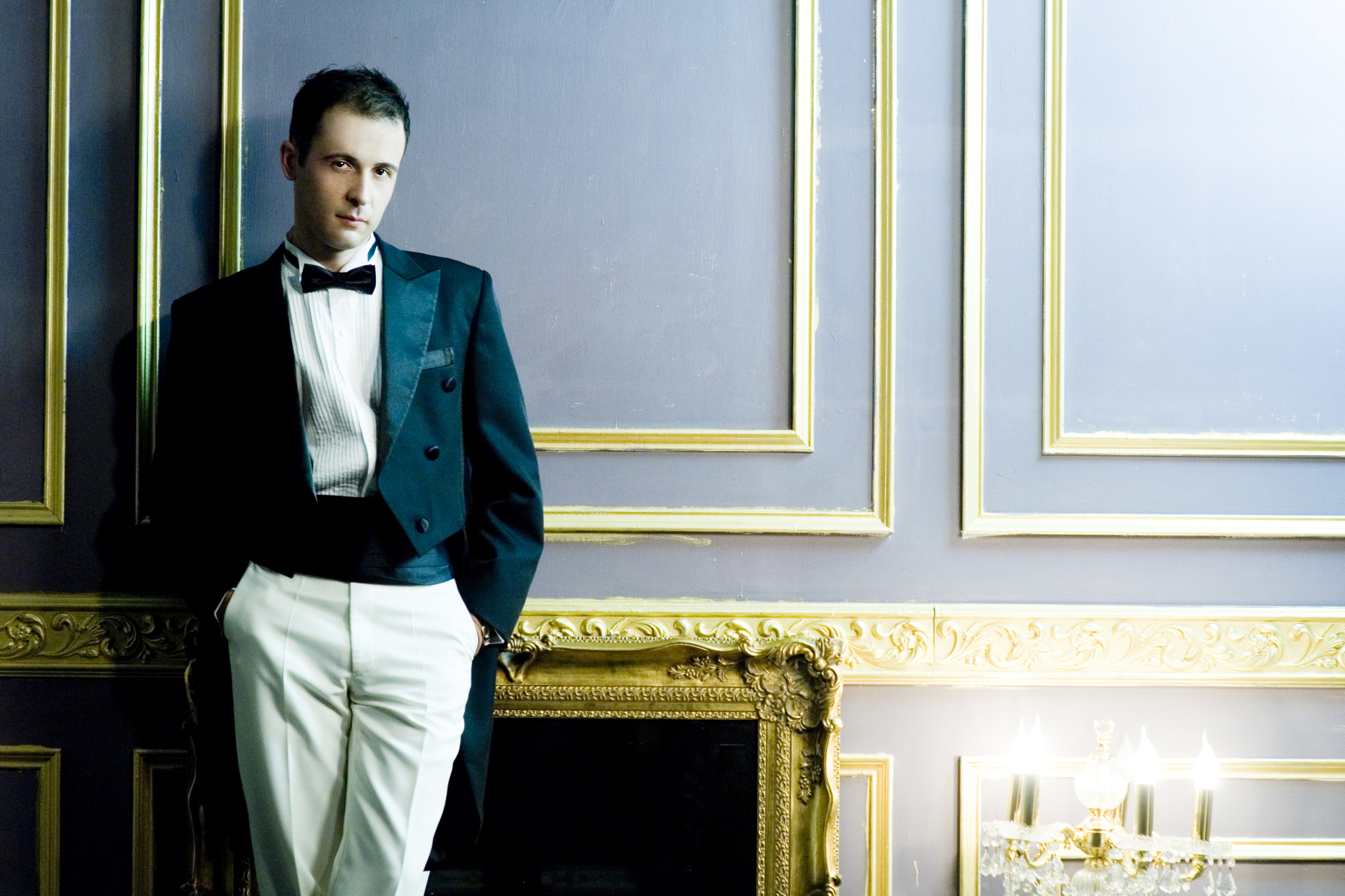 Giorgi Latsabidze